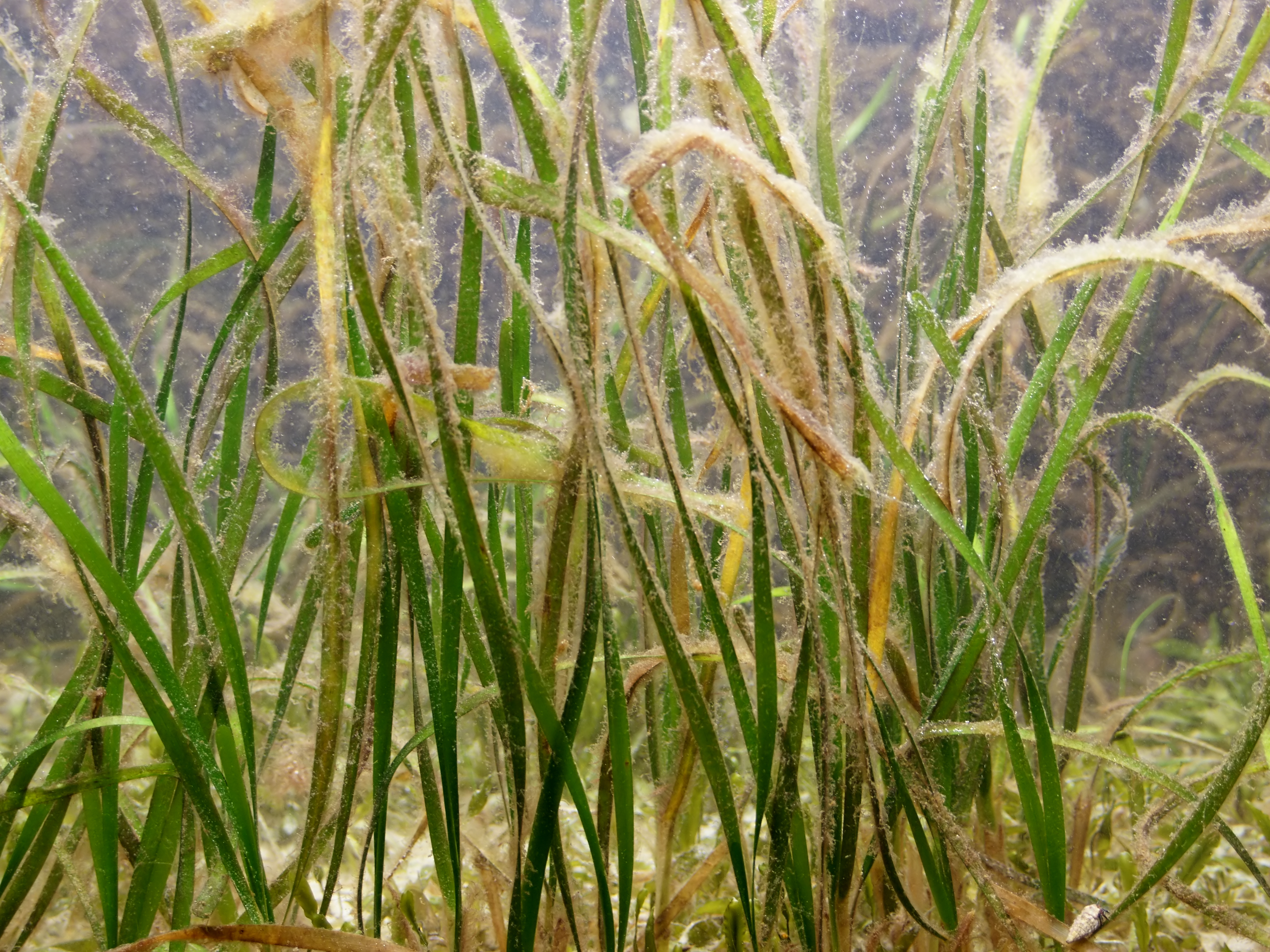 Shoal-grass at St. Lucie County Marine Center in Fort Pierce, St. Lucie County, Florida, U.S.A.